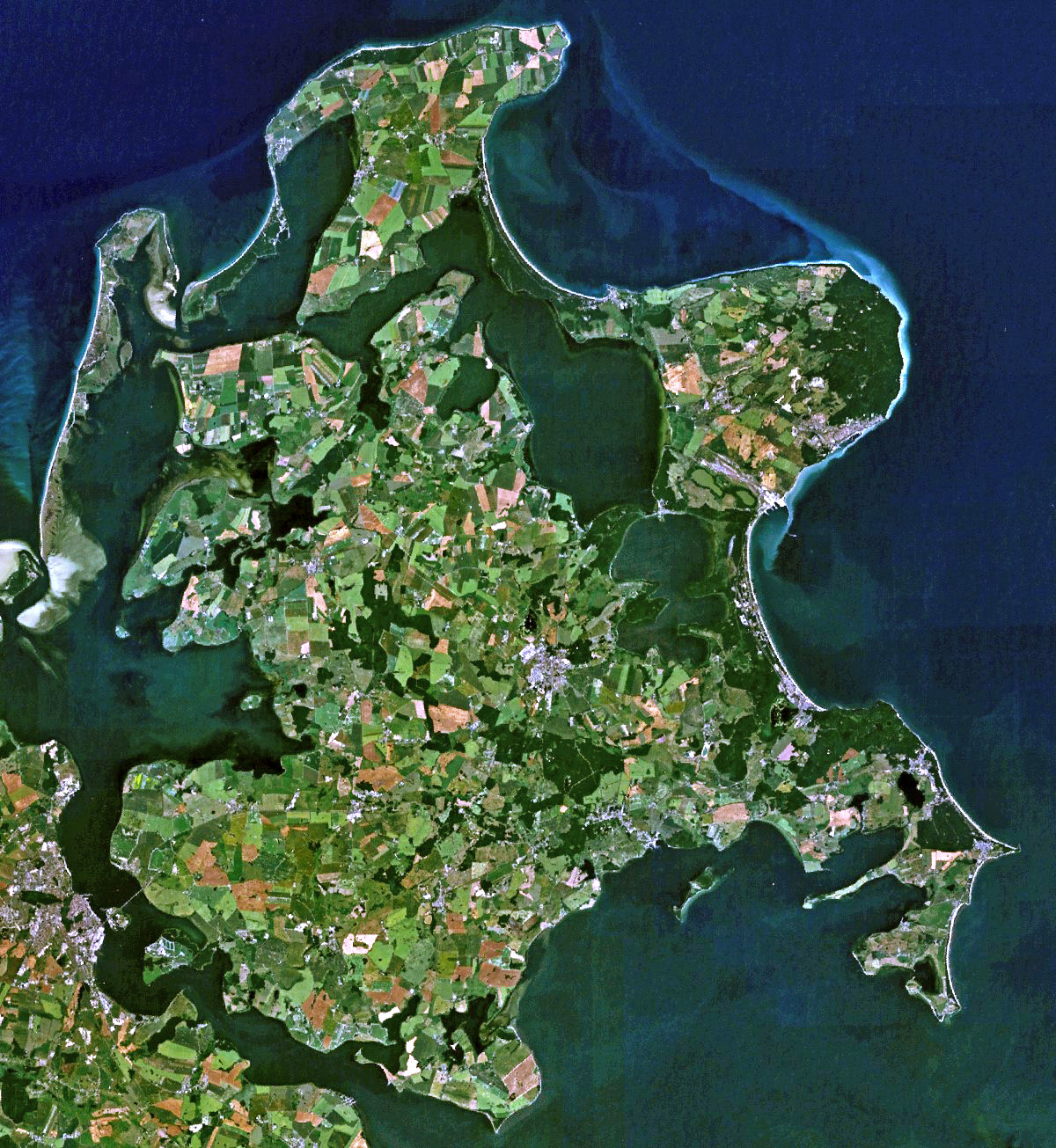 Satellite Image of Rügen